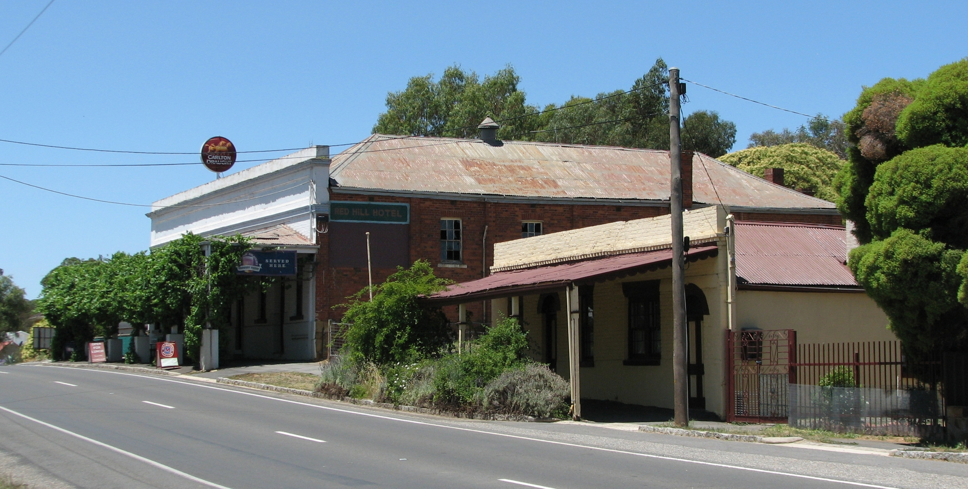 Streetscape including Red Hill Hotel, Chewton, Victoria, Australia